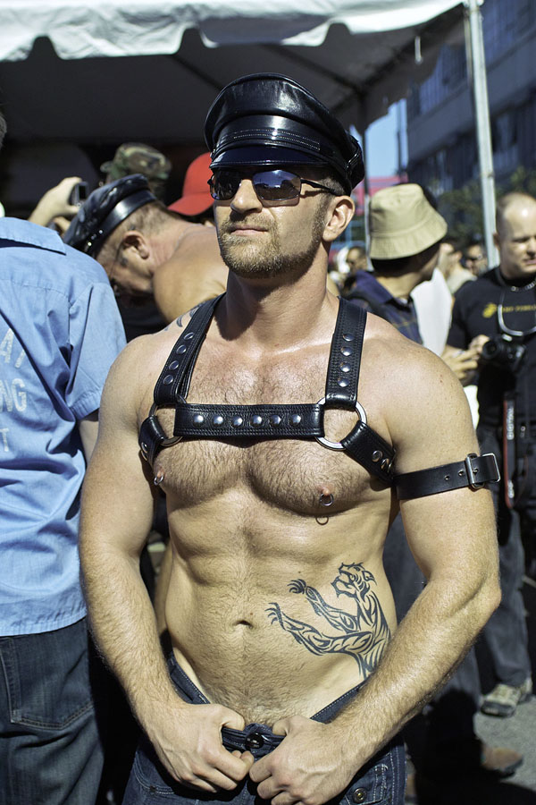 Adam Faust